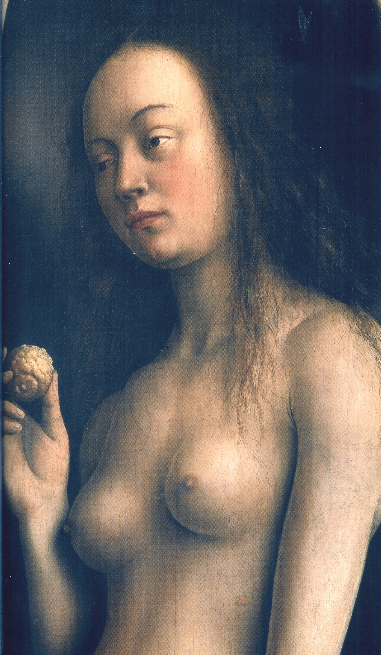 Jan van Eyck painting "Ghent Altarpiece", detail: Eve